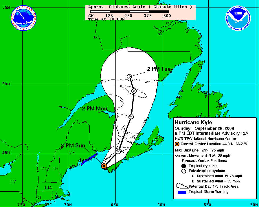 5-day forecast track of Tropical Storm Kyle. Map shows location at time listed in legend-box; for latest coordinates, see NHC text: Hurricane KYLE Public Advisory.